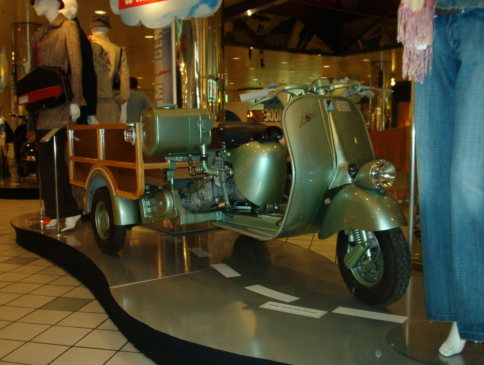 Piaggio Ape 125, MKI (1948-1952)